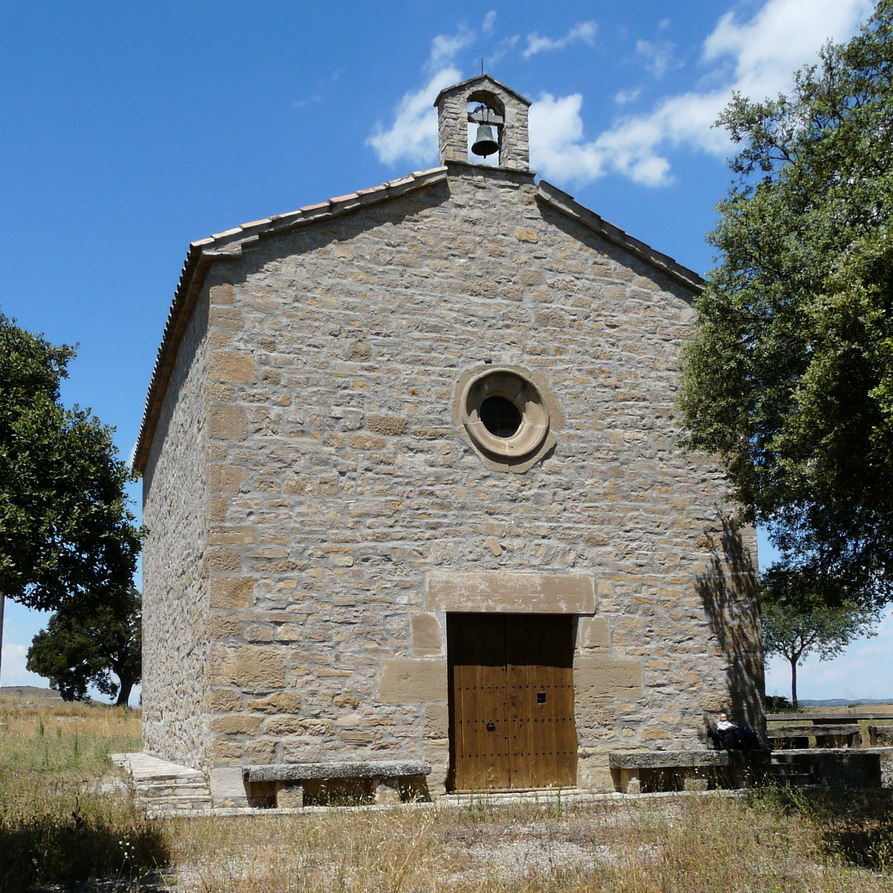 Sant Valentí de Vilallonga, a Sant Martí Sesgueioles (Anoia, Catalonia)